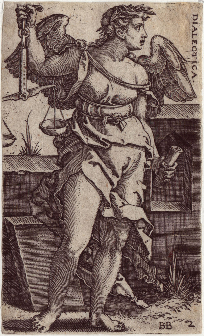 Beham, (Hans) Sebald (1500-1550): Dialectica (B.122, P.124), from The Seven Liberal Arts, P., Holl. 123-129. First state of two.